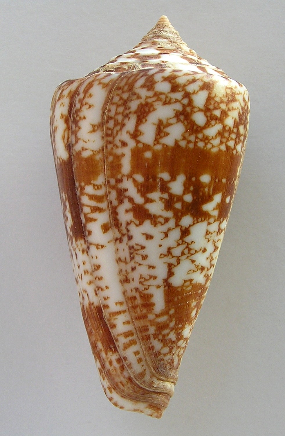 Conus amadis Gmelin, 1791 ; India